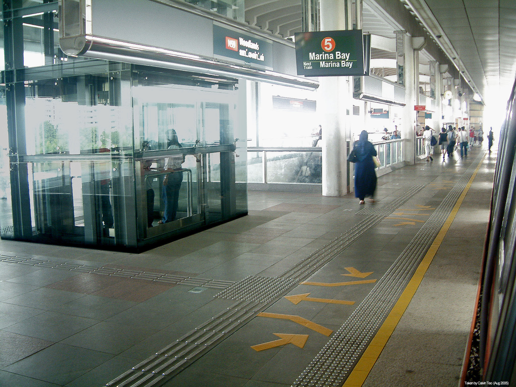 Platform of Woodlands MRT Station (NS9), on the North South Mass Rapid Transit Line in Singapore.